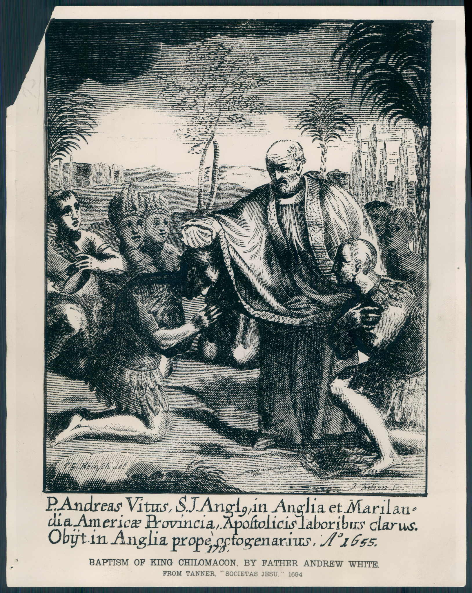 Andrew White , the "Apostle to Maryland", baptizing the Indian chief Chitomachon